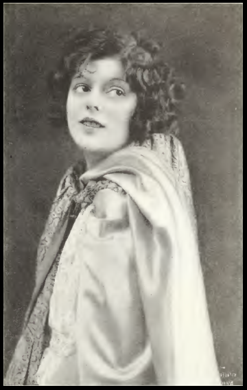 An image of silent film actress Clarine Seymour in 1920; the last known photogaph of her.